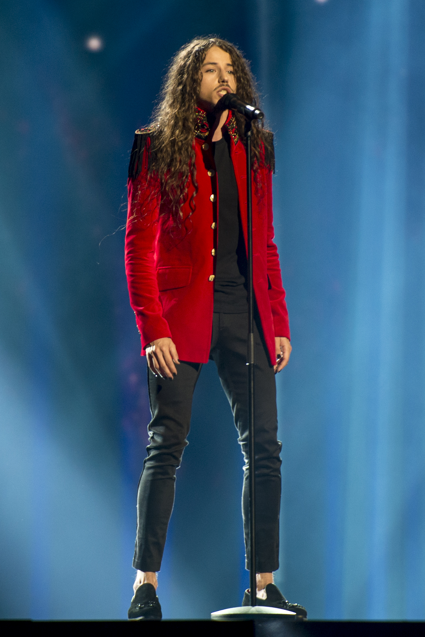 Michał Szpak representing Poland with the song "Color Of Your Life" during a rehearsal before the second semi final of the Eurovision Song Contest 2016 in Stockholm. (Help translate this text)